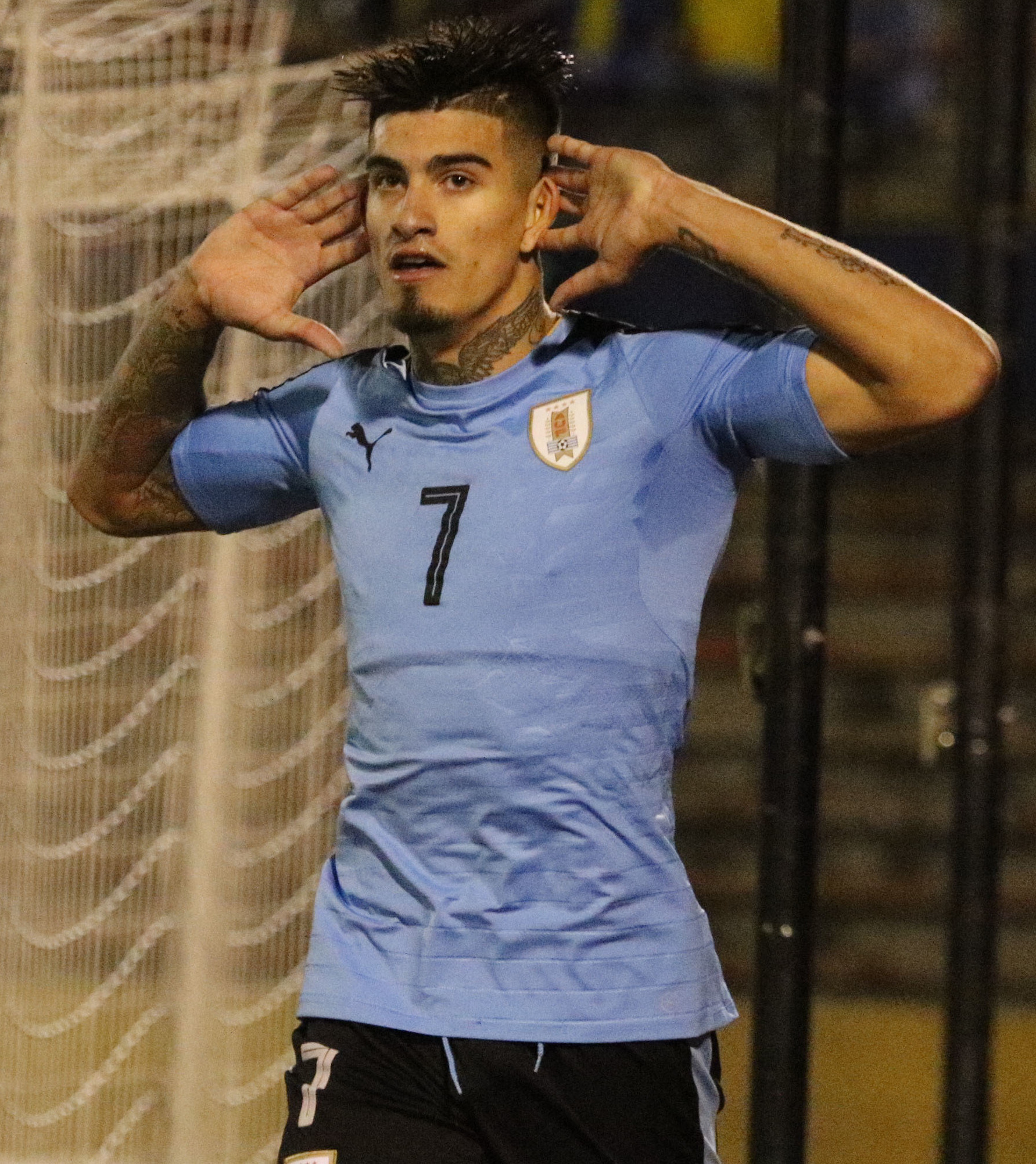 ECUADOR VS URUGUAY SUB 20